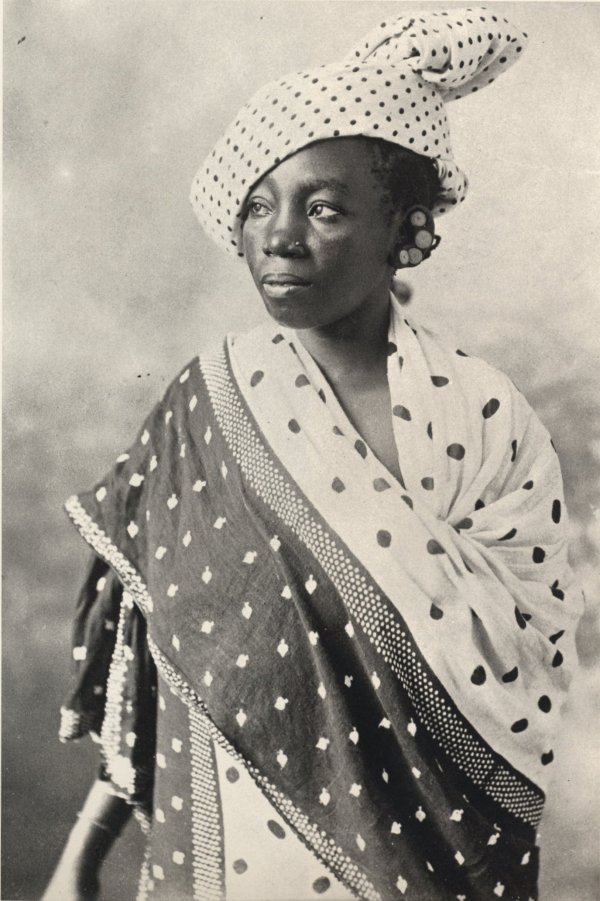 Photograph of woman dressed in Kanga clothing from Zanzibar by Coutinho brothers, c. 1890. Note: The Coutinho brothers established one of the first commercial photographic enterprises at Zanzibar in the 1870s. They were probably of Portugese origin, one brother is referred to in records as J. B. Coutinho. The other was Felix.